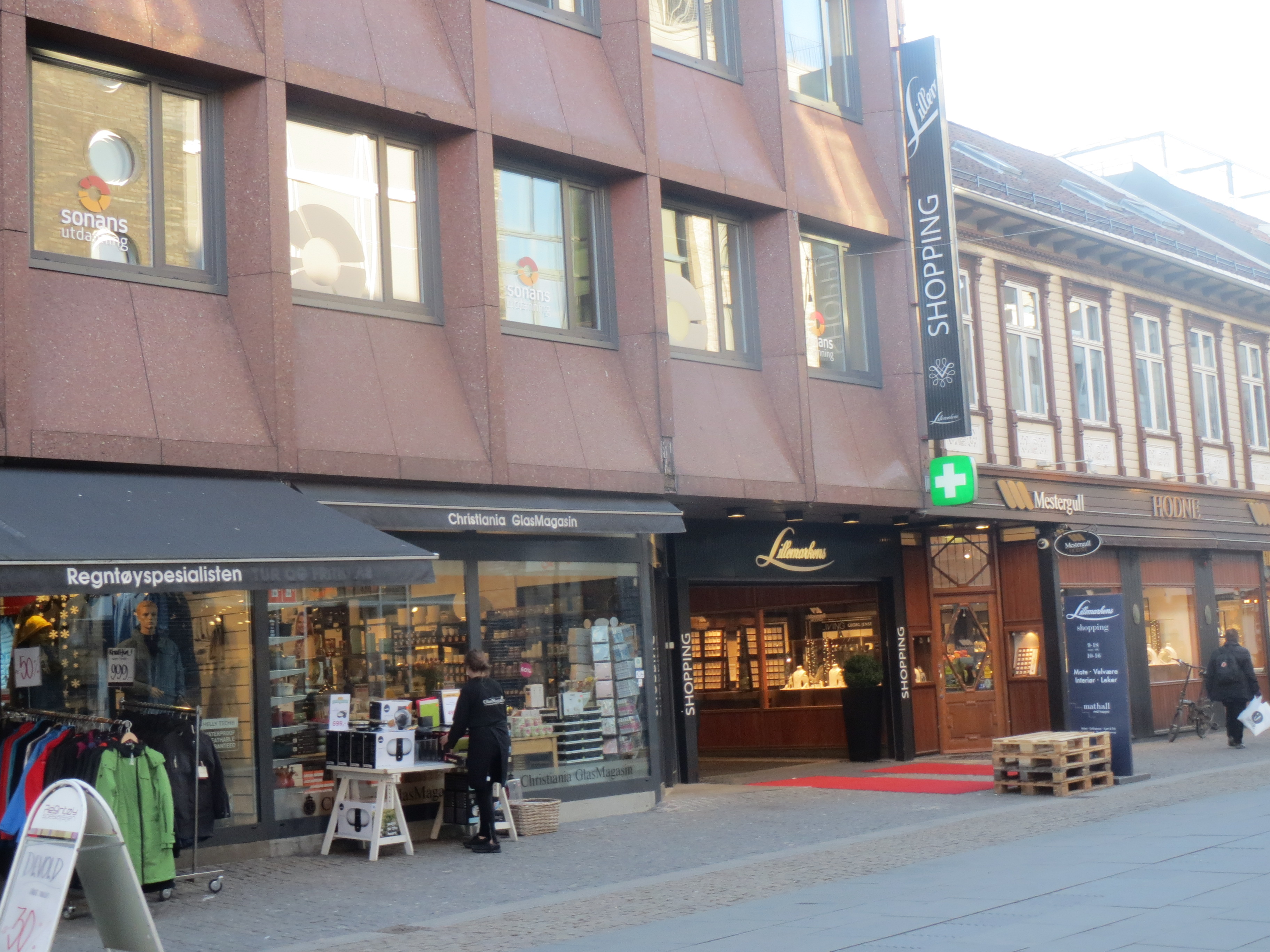 Lillemarkens shopping center, entrance from Markens gate - Kristiansand, Norway